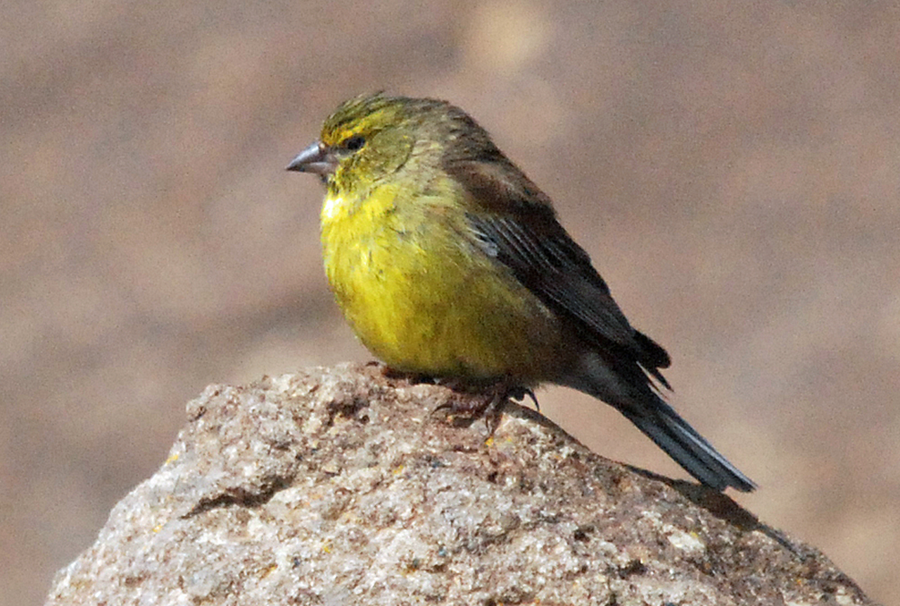 Drakensberg Siskin (Crithagra symonsi), South Africa